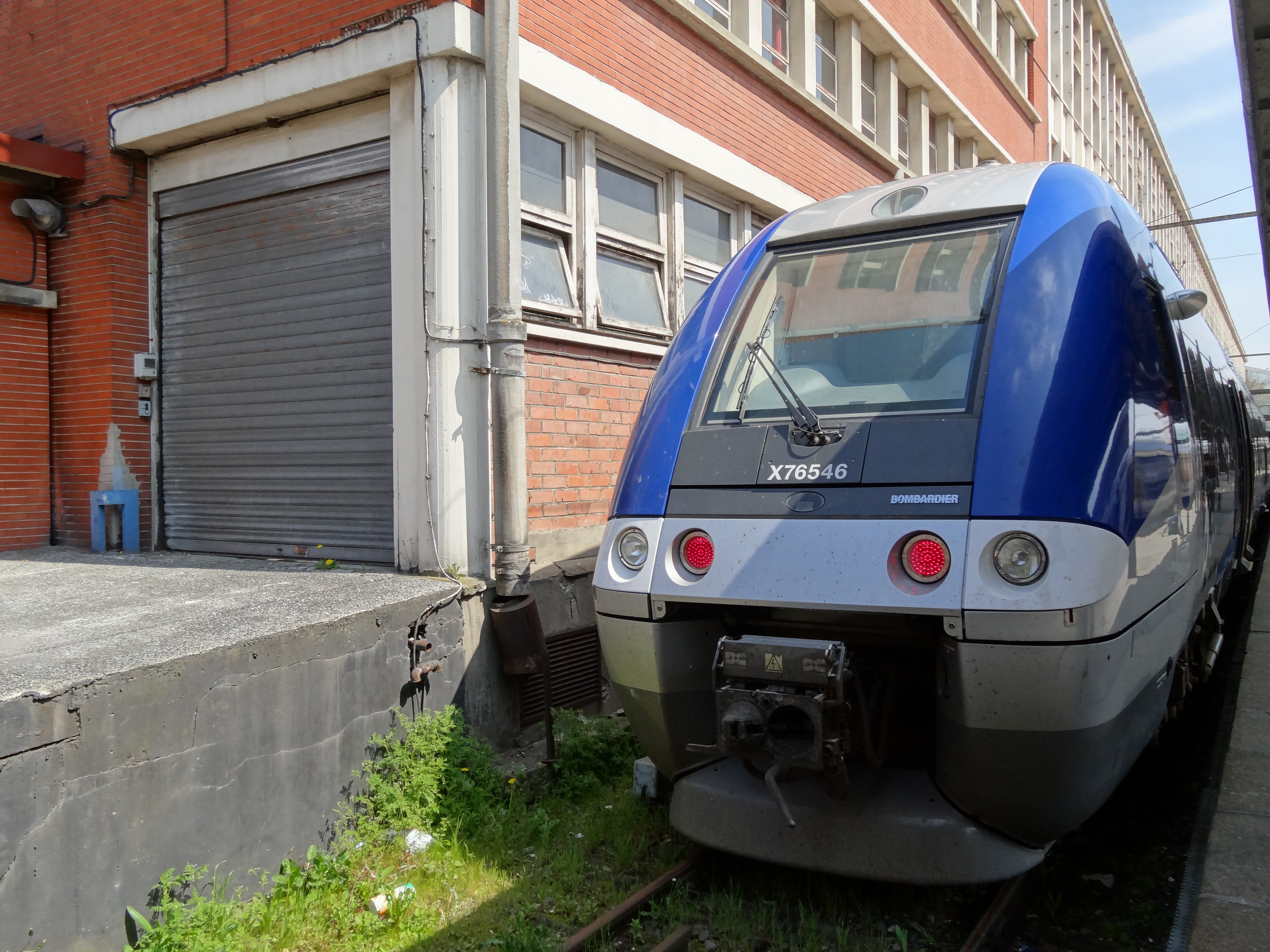 Gare de Lille Flandres